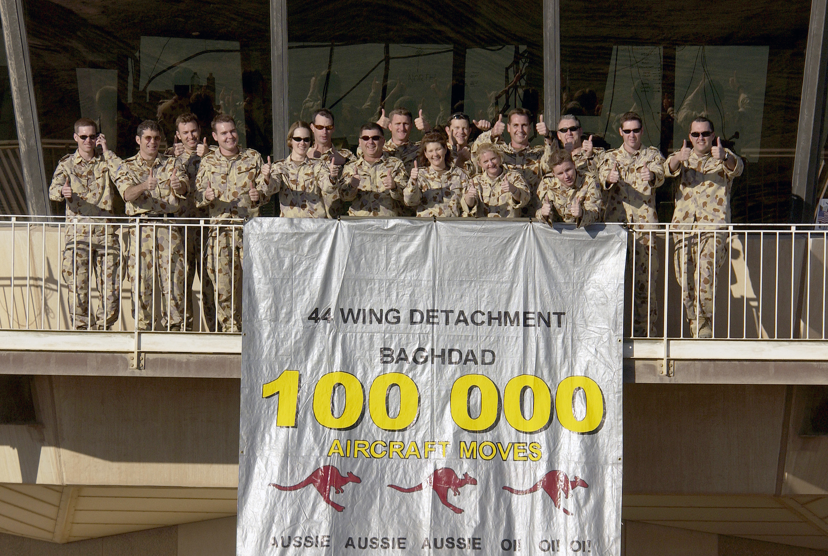 Austrailian military personnel from the Australian Air Control Tower Detachmet, Task Unit 633.4.2 celebrate the One Hundred Thousand aircraft to move through Baghdad International Airport (BIA), Iraq, in support of Operation IRAQI FREEDOM.